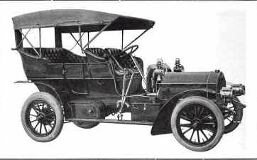 All 1905 Appersons were 4 cylinder cars with either 24, 40 or 50 HP. A Side Entrance Tonneau was not listed, but is very similar to a touring car. This is probably a 40 HP Model A.